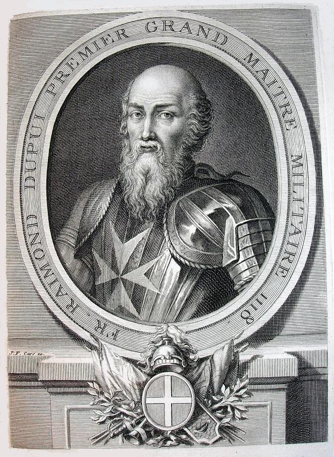 copper engraving, portrait of Raymond du Puy, entitled FR. RAIMOND DUPUI PREMIER GRAND MAITRE MILITAIRE